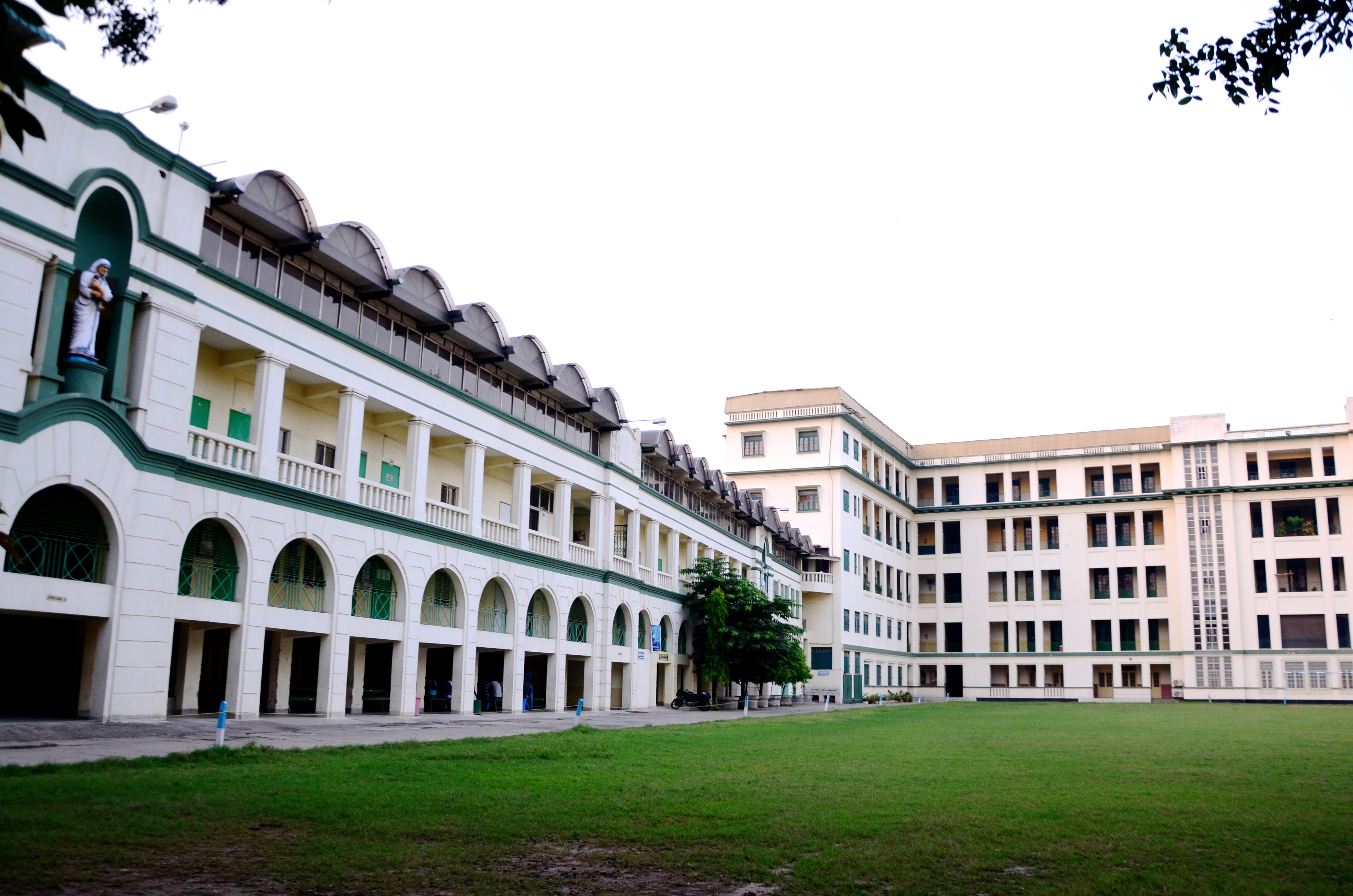 college at St.Xaviers college, kolkata